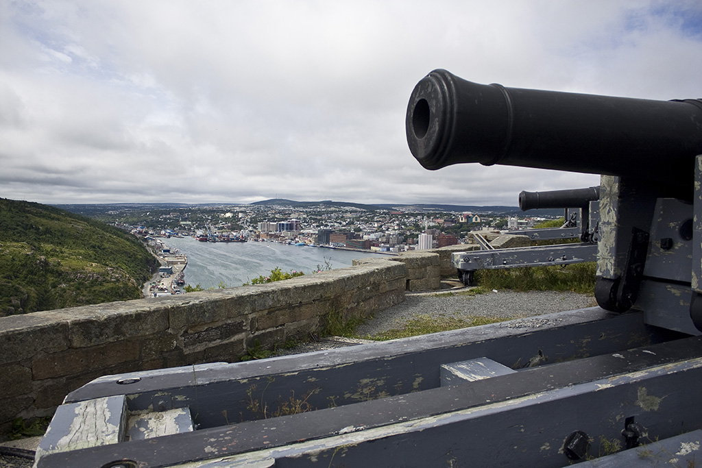 Queen's Battery, Signal Hill, St John's, Newfoundland